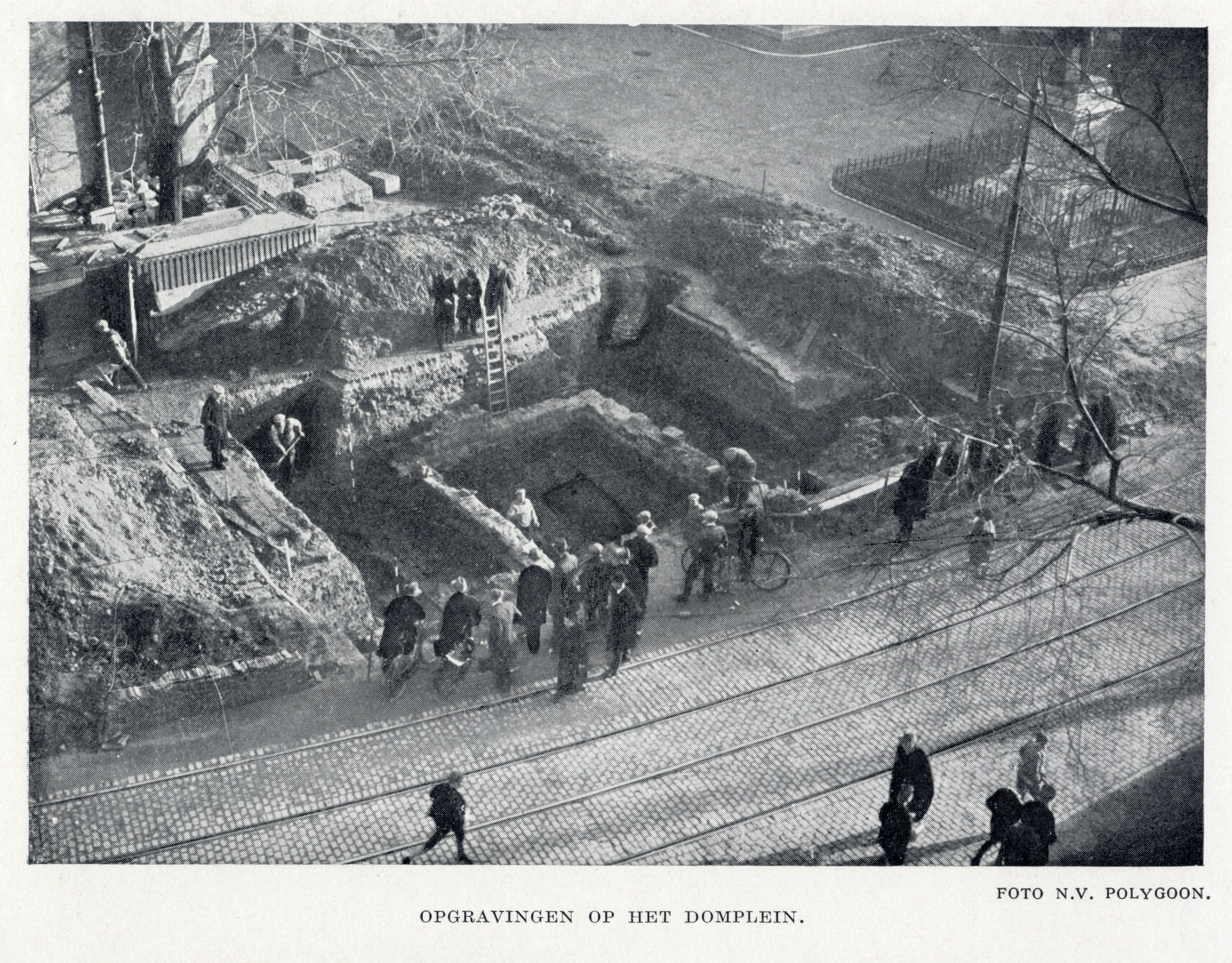 Archeological excavation in 1929 in Utrecht at the Domplein (Netherlands)